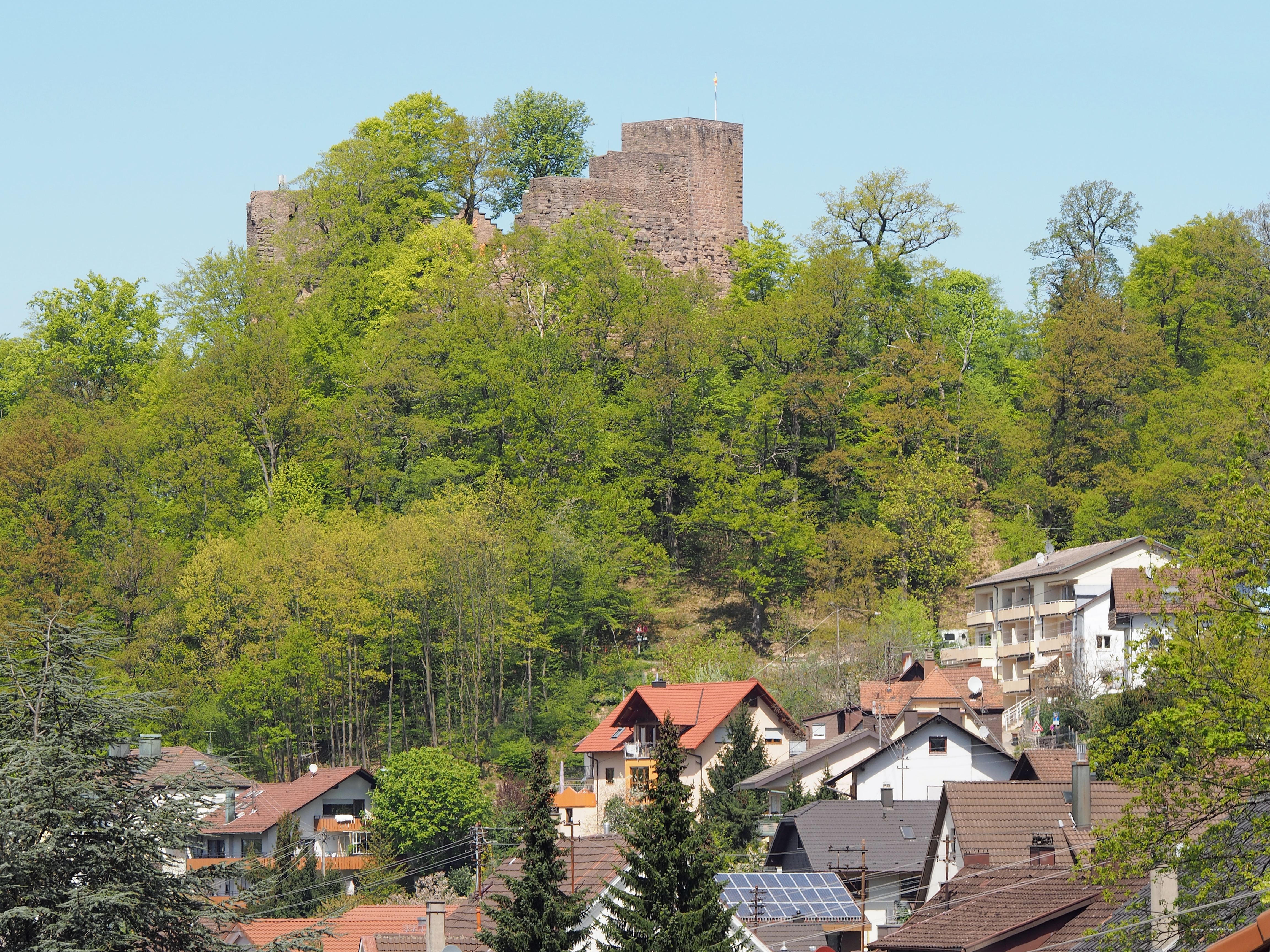 View to the castle Alt-Eberstein, German Federal State Baden-Württemberg.